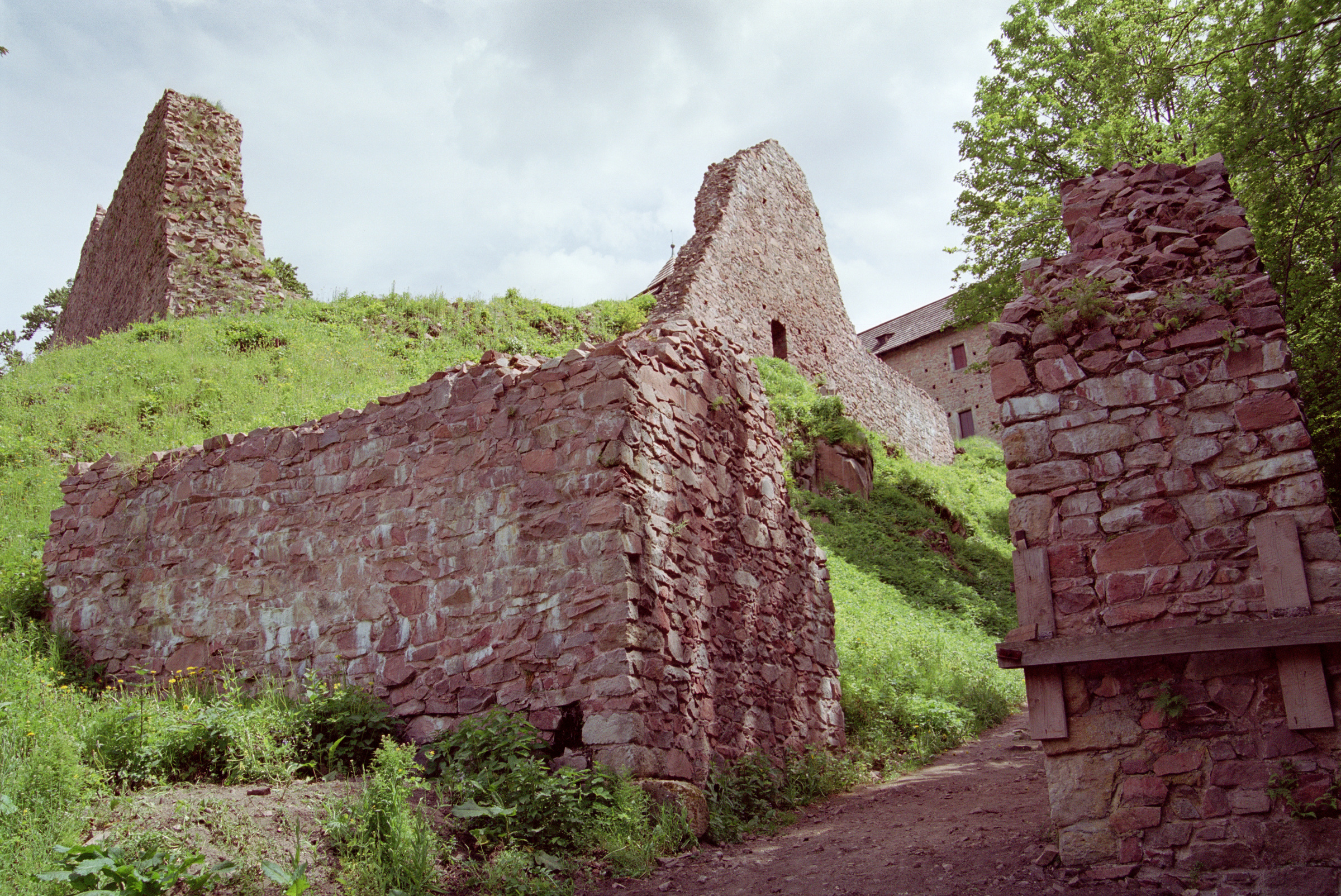 hrad (Burg, castle) Litice nad Orlicí in Pardubický kraj, inside near the entrance